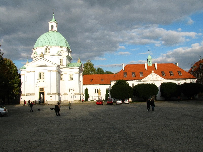 Picture of the church